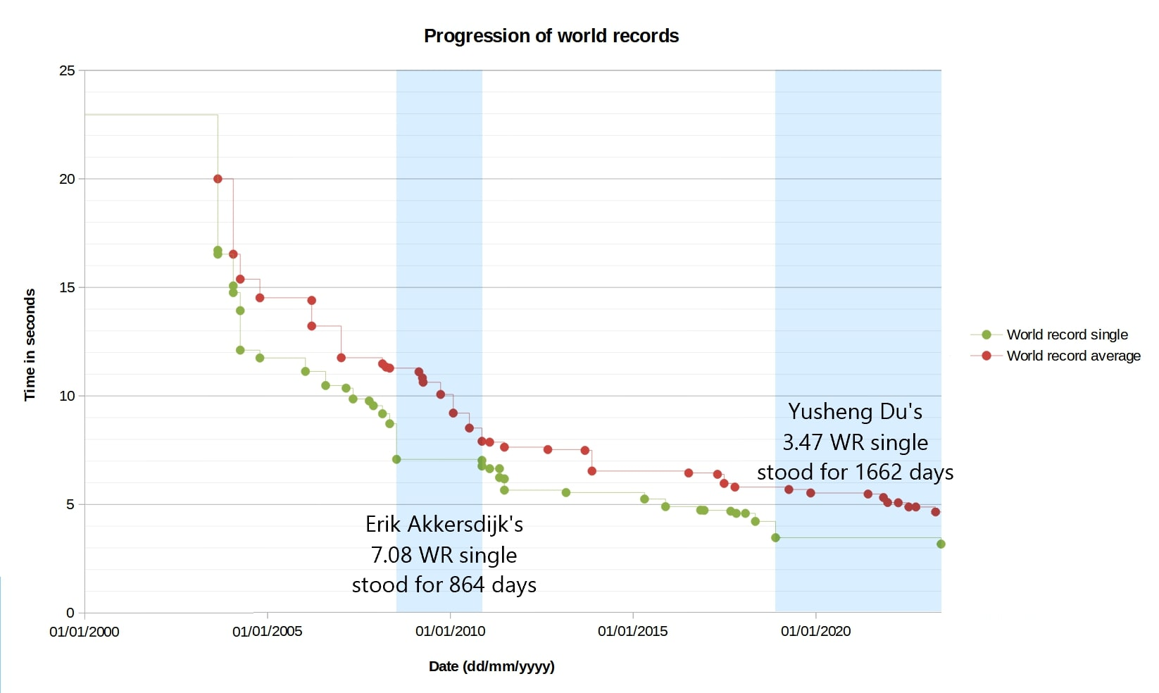 A scatter plot of Rubik's Cube world records(single and average) vs time. This depicts the improvement made over the years, as well as highlight records that stayed unbroken for an unusual amount of time.